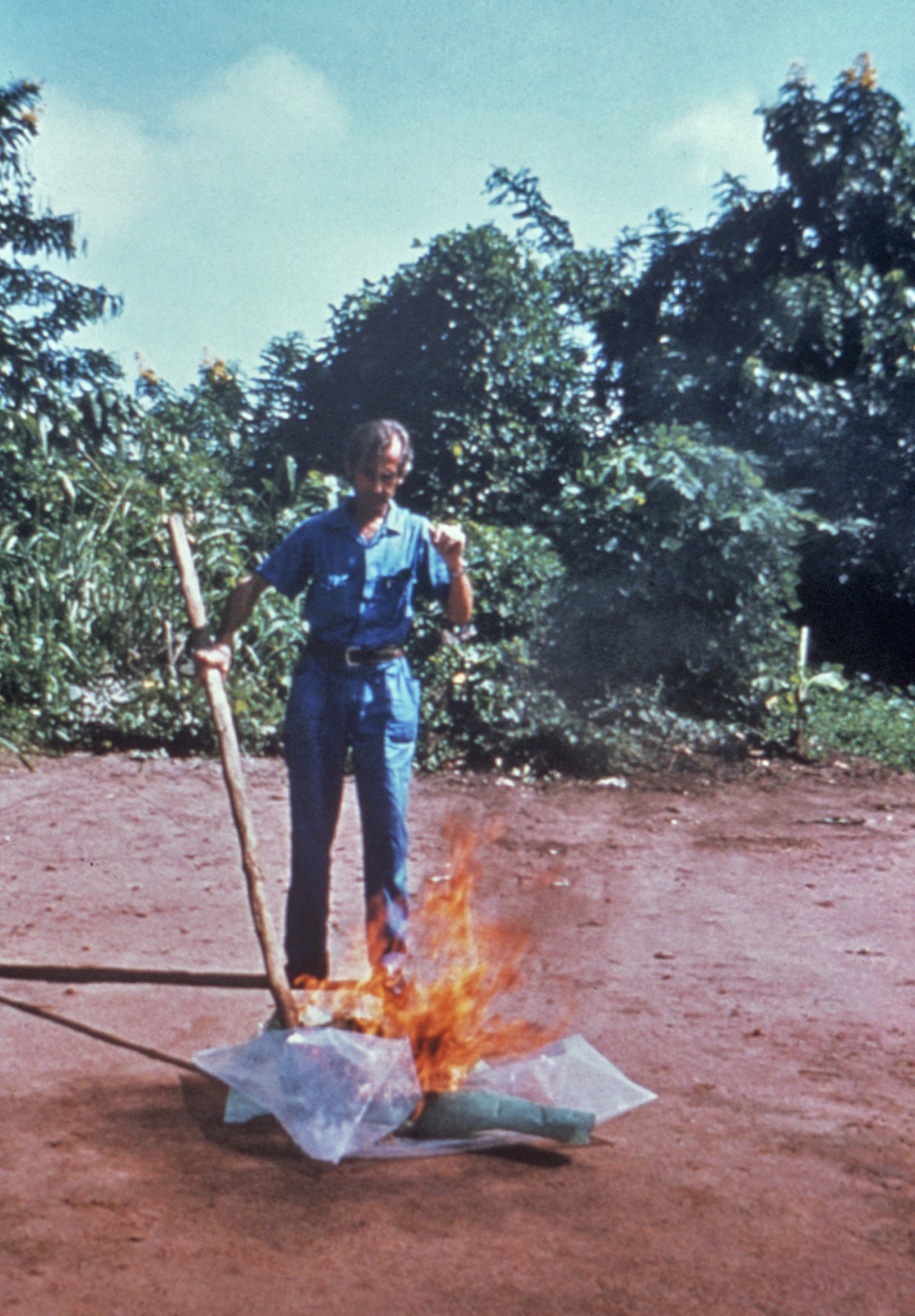 "The health care worker shown here was incinerating materials used in the treatment of Ebola patients at a Yambuku hospital in 1976."